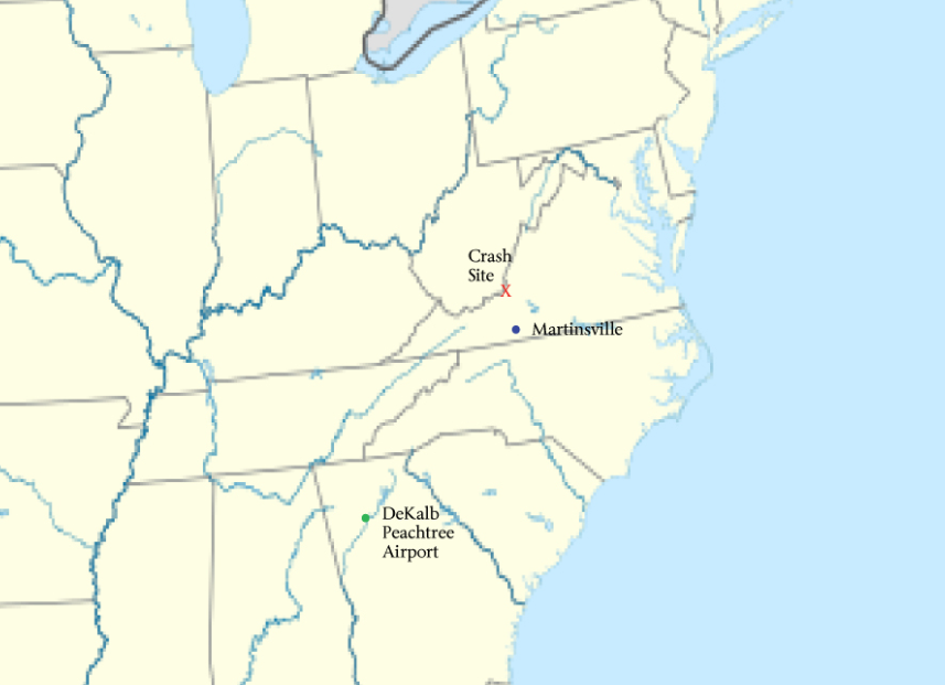 Image of Audie Murphy crash map samf4u.png